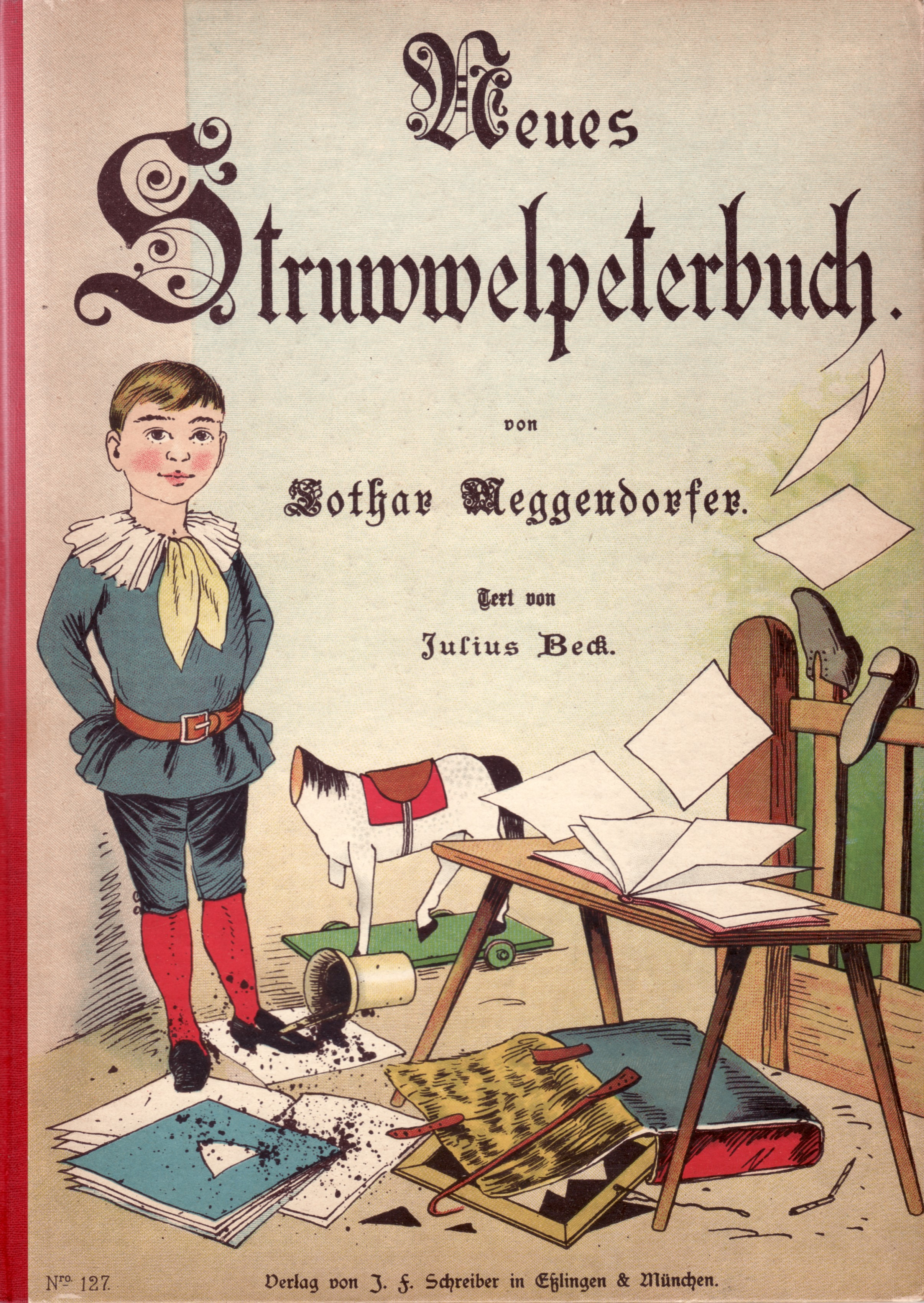 children's book by Julius Beck